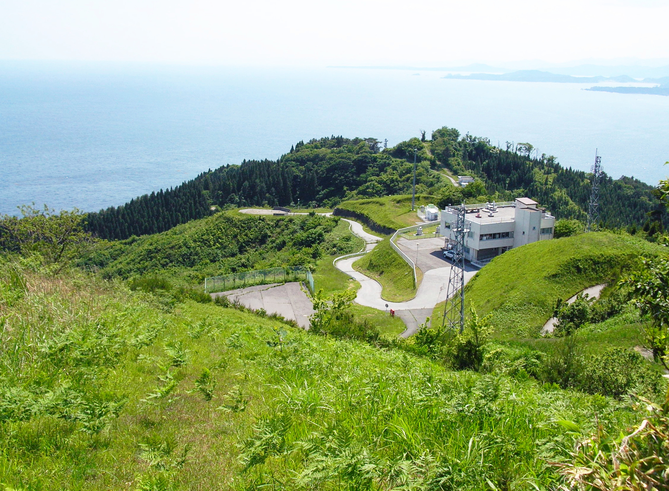 Ryori Station, one of the greenhouse gases observation stations of the Japan Meteorological Agency, seen from Ryorizaki (Cape Ryori) in Ofunato City, Iwate Prefecture, Japan